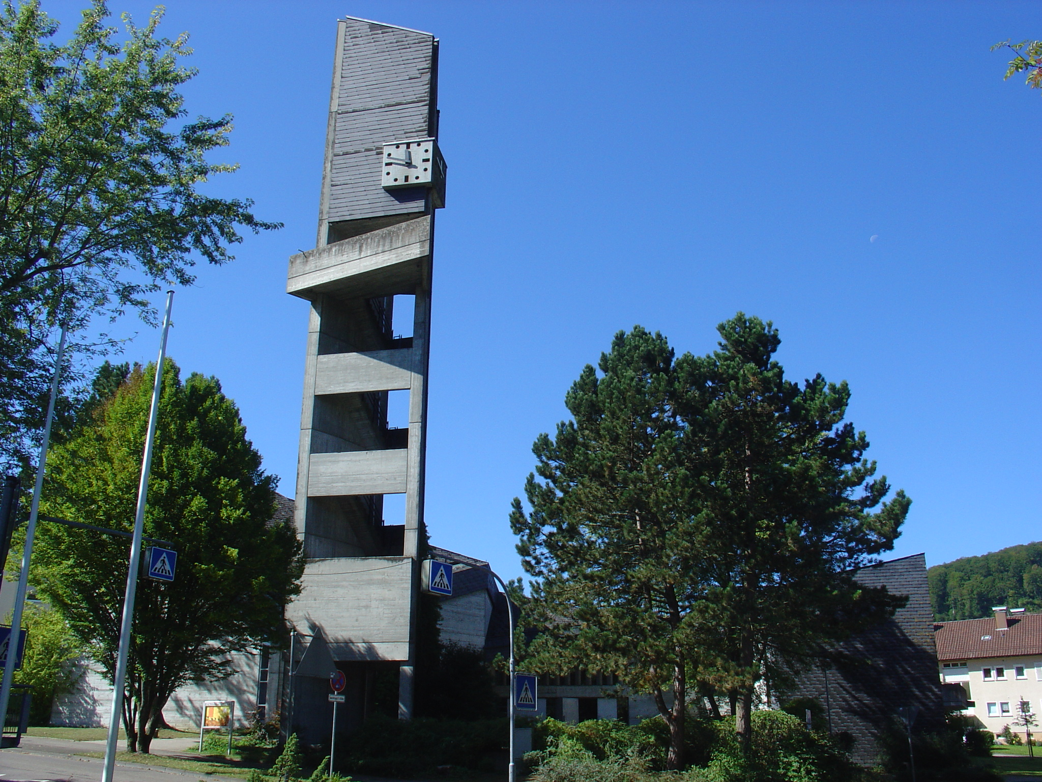 Versoehnungskirche a protestant church in Oberkochen, Germany